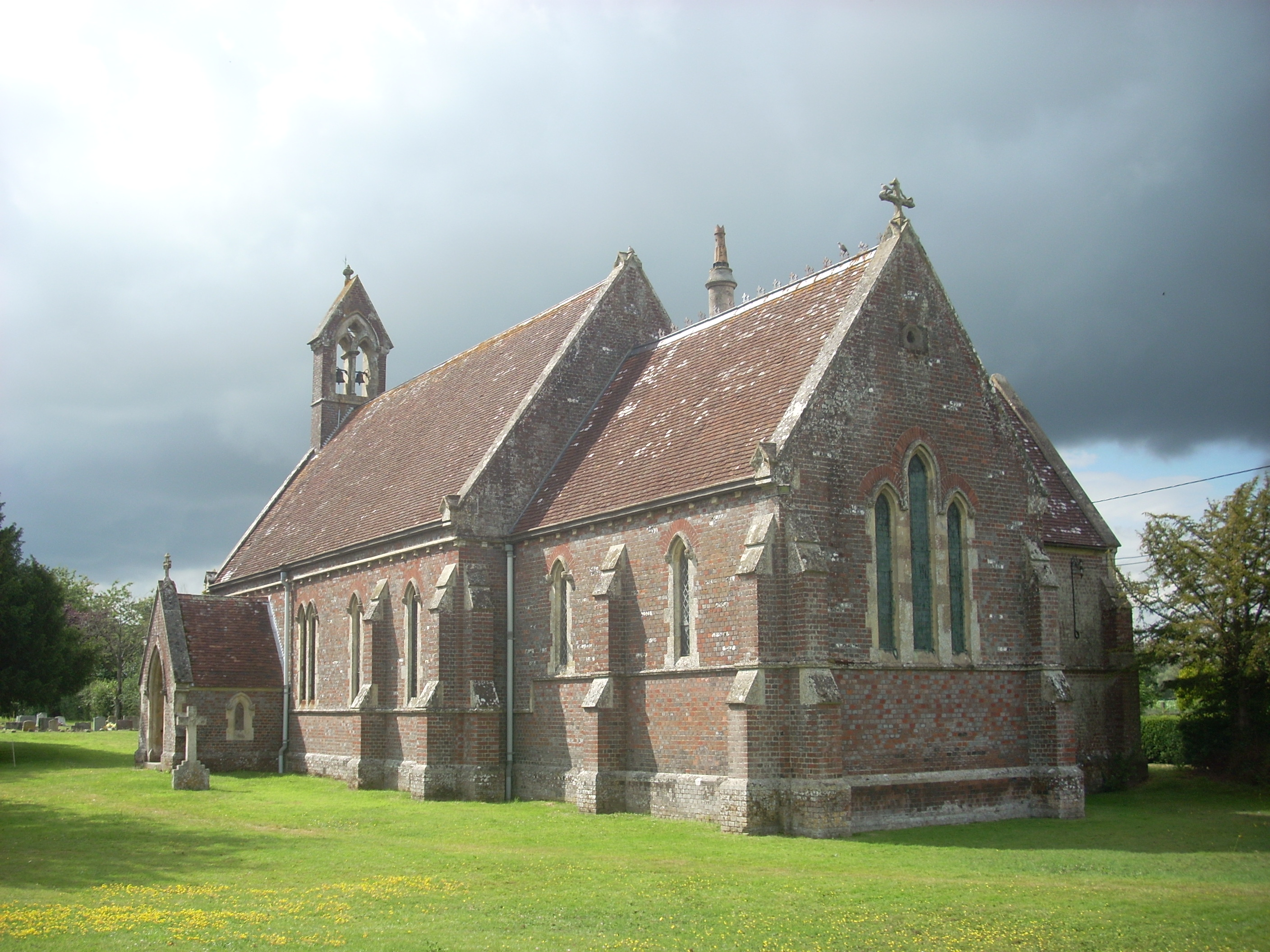 All Saints' Church in Charlton All Saints, Wiltshire, England, dating to the mid-19th century.